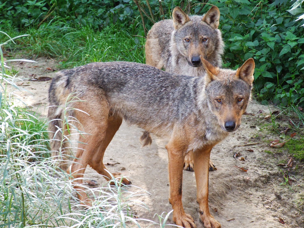 Iberian wolves (Canis lupus signatus) in Kerkrade's Zoo (Netherlands).